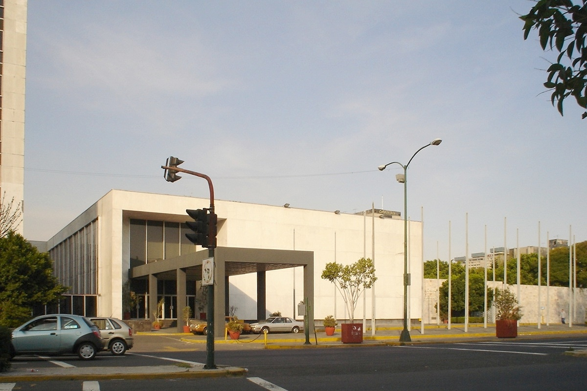 ANEXO DE LAS ANTIGUAS OFICINAS CENTRALES DE LA S. R. E. AHORA PERTENECIENTES AL PATRIMONIO DE LA U. N. A. M..jpg